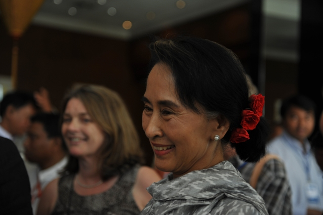 Aung San Suu Kyi, Festival Patron, (foreground) and Jane Heyn, Festival Founder (background)